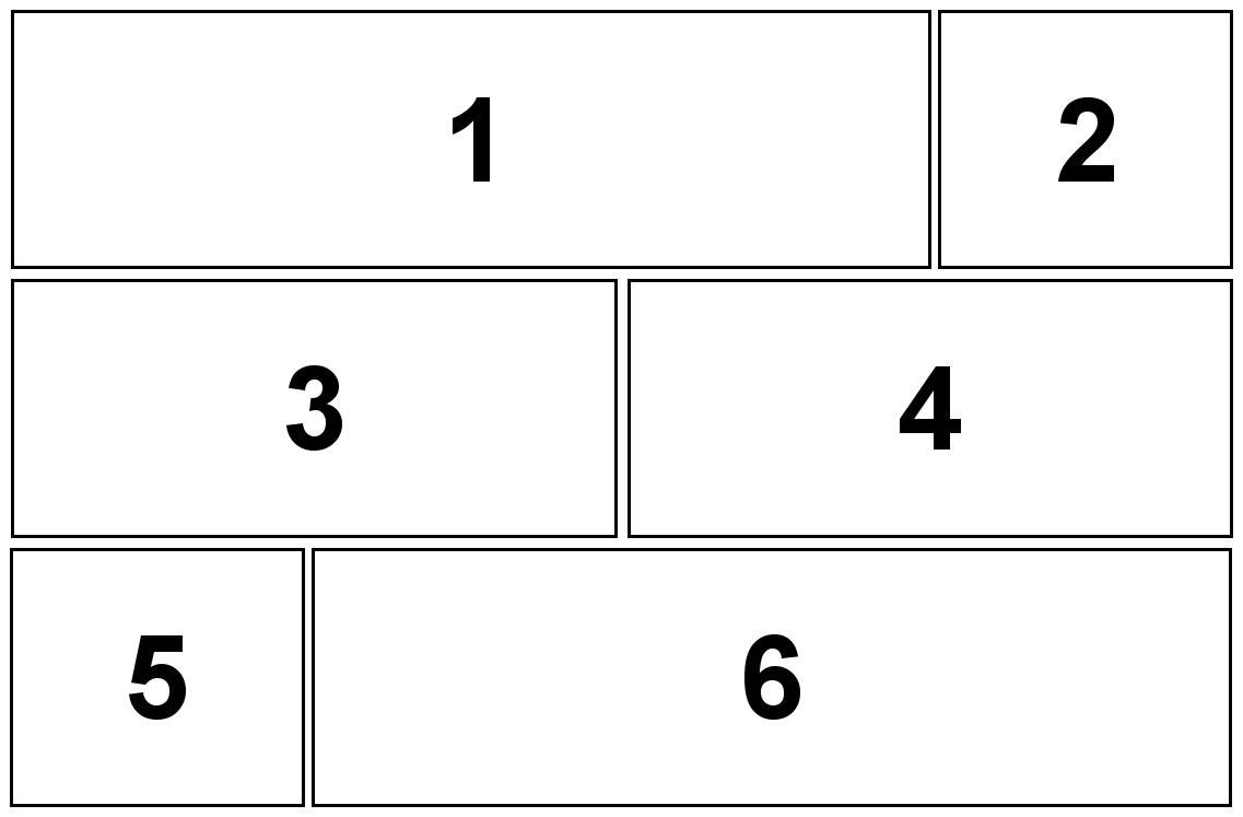 Sunday comic strip layout when arranged to fill half of a newspaper page, based on diagrams in Calvin and Hobbes Tenth Anniversary Book, page 14.